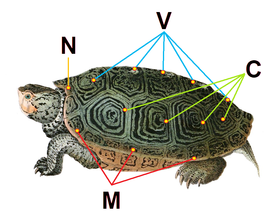 Diamondback terrapin, Malaclemys terrapin, hand-colored lithograph